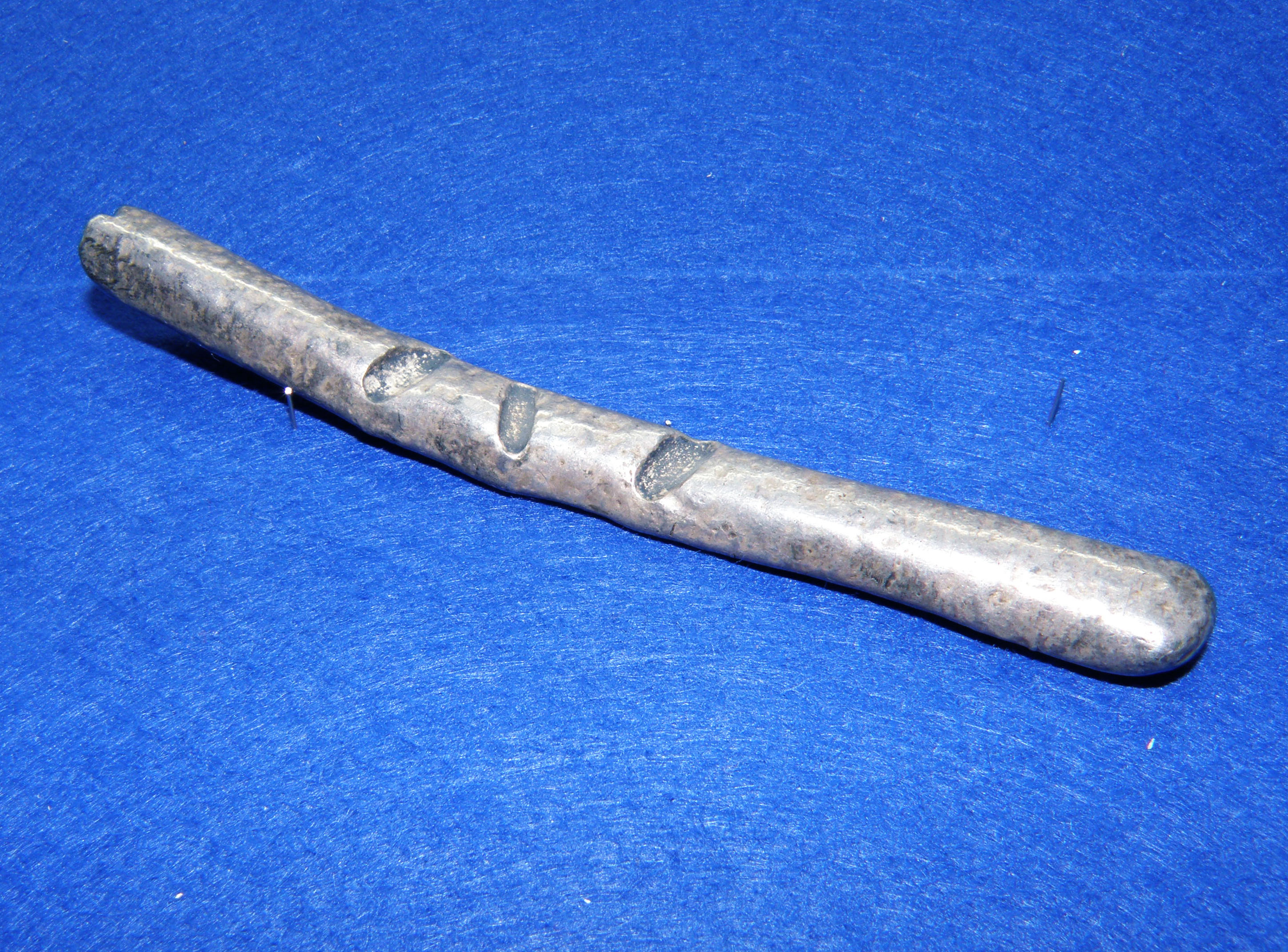 So called "Lithuanian silver ingot" (Litouskaja Hryuna) of the 12th or 13th century in the Vishchyn Treasure Trove Collection